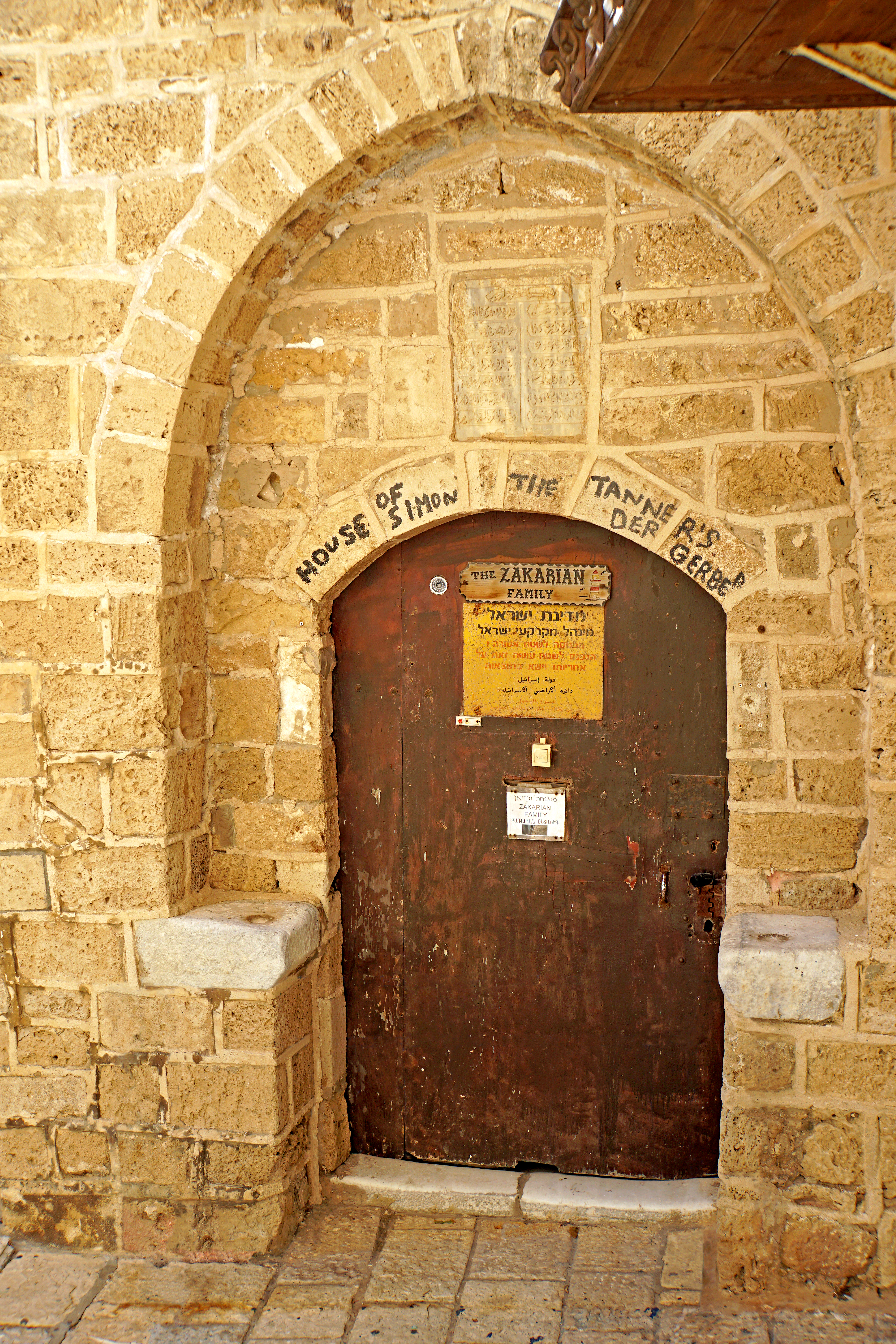 Home of Simon the Tanner a site sacred to Christianity. According to tradition, Simon the Tanner hosted the Apostle Peter during his travels in the Land of Israel. The New Testament says Peter performed a miracle in Jaffa – the resurrection of Tabitha, a woman known for her virtue, with the words "Tabitha, rise". This miracle increased the number of adherents to Christianity. Peter had a dream, he saw clean and unclean animals together. A heavenly voice told him to eat of the animals, and when he refused to eat unclean animals, the voice told him: “What God has made clean, do not call common.” Peter interpreted the dream as divine sanction to spread Christianity not only among Jews but also among the pagan Romans, and he agreed to convert Cornelius, a Roman centurion in Caesarea. This marked a historical turning point in the process of transforming Christianity into a universal religion.